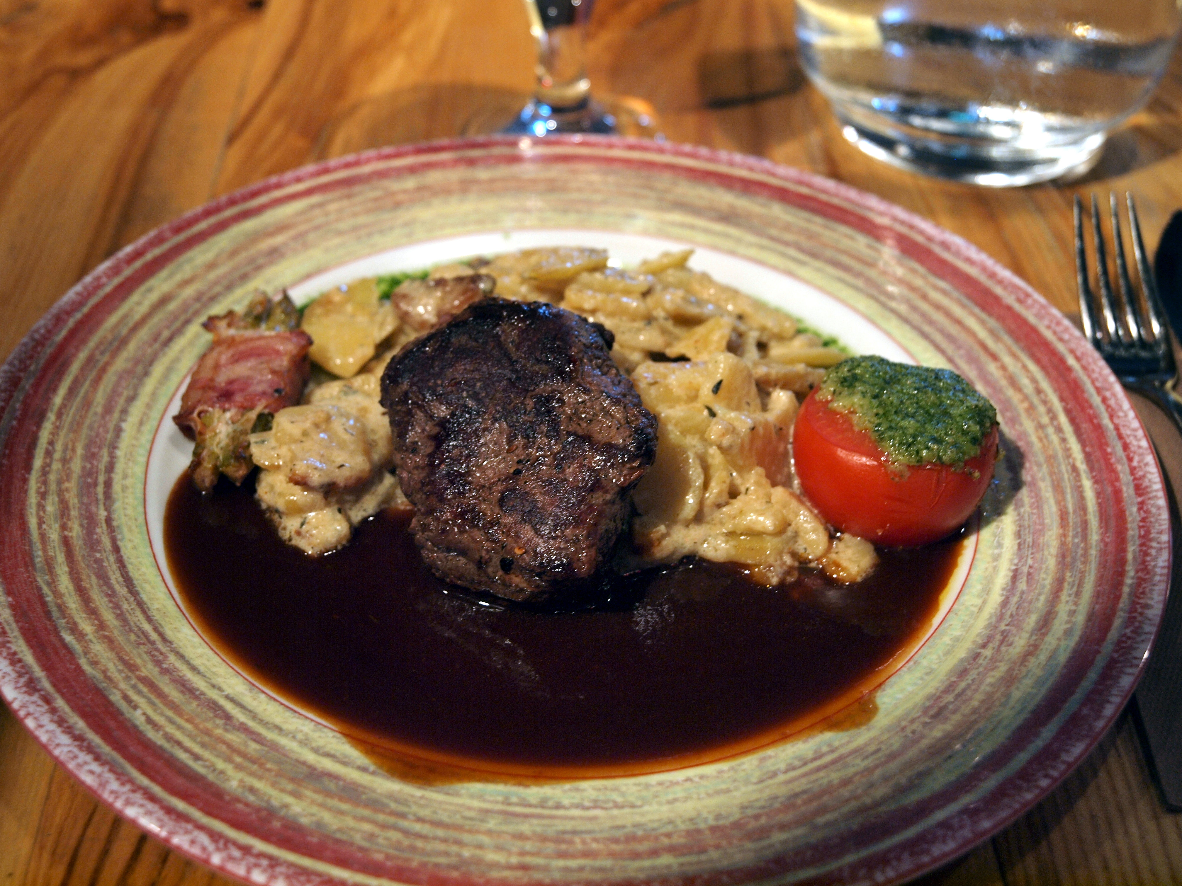 A "Big Hero" steak at restaurant Oklahoma, Vantaa, Uusimaa, Finland: a horse meat steak with roquefort potatoes, red wine sauce, tomato gratinated with garlic and herbs, and fresh asparagus wrapped in bacon, along with a glass of water.